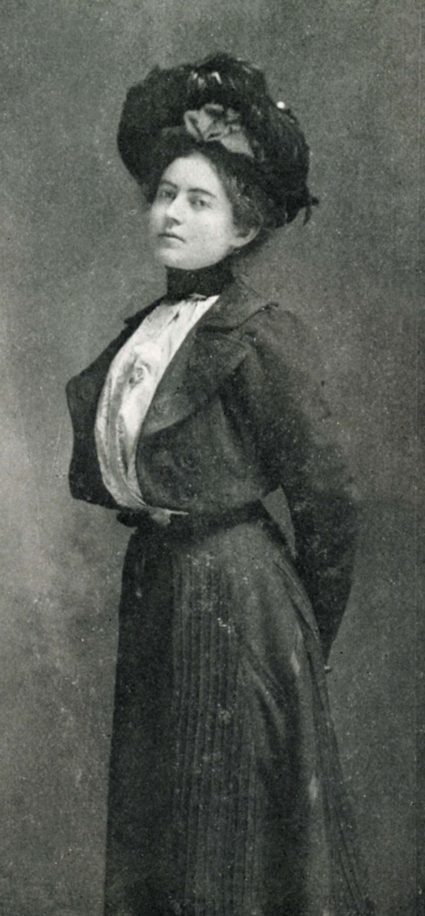 Mary MacLane (From the inside cover of The Story of Mary MacLane, Herbert S. Stone and Company, 1902)